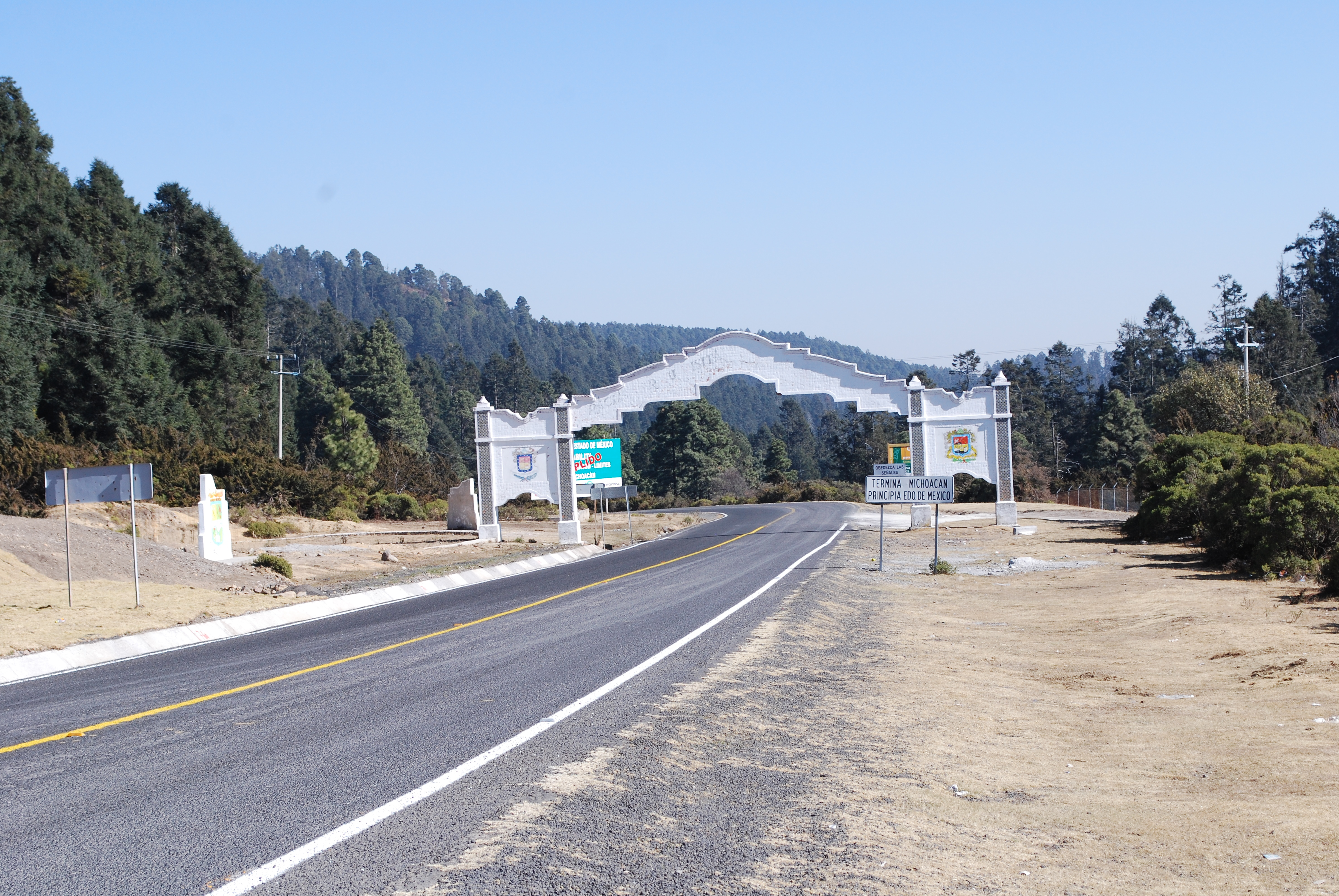 Arch over highway in the Sierra Chincua — marking border between Michoacan and Mexico States.